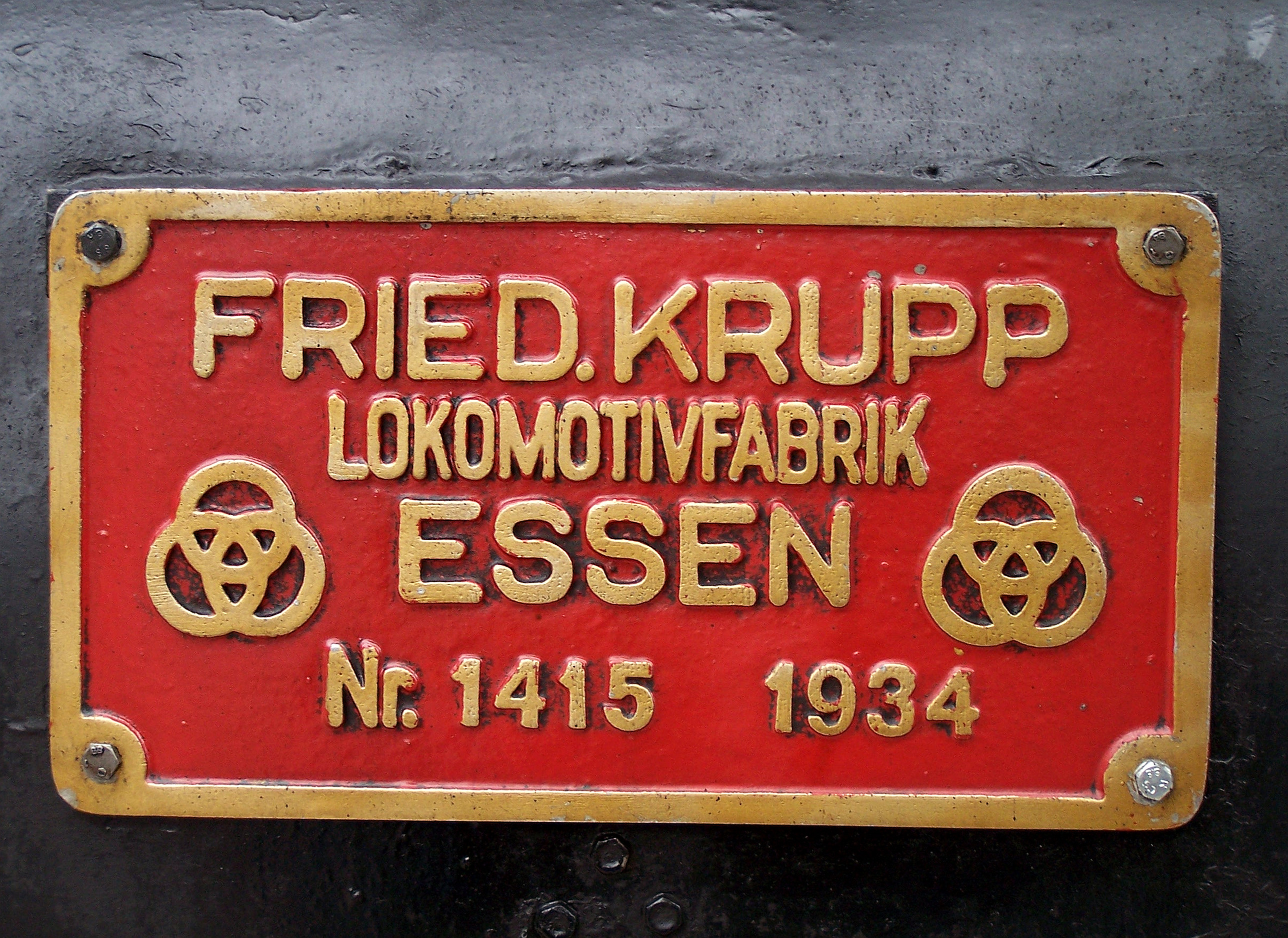 Builder's plate with plant number of the DRG Class 01 No 118 of the HEF